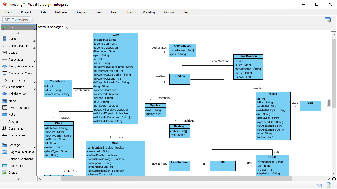 Visual Paradigm screenshot